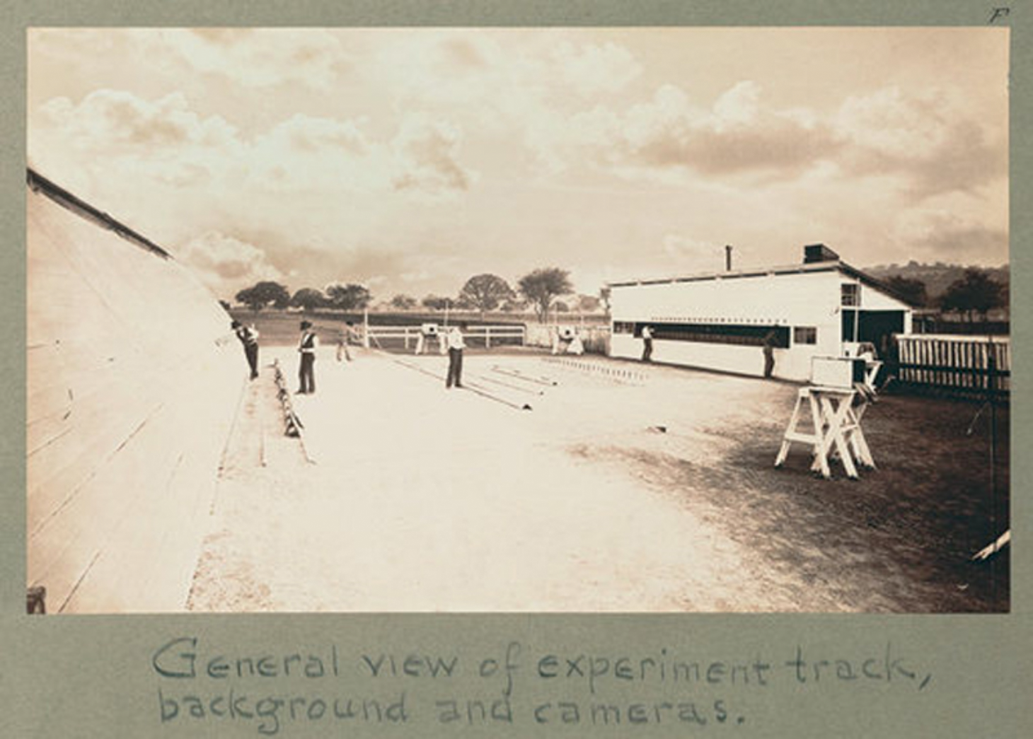 General view of experiment track, background and cameras. Plate F, 1879, from The Attitudes of Animals in Motion, 1881